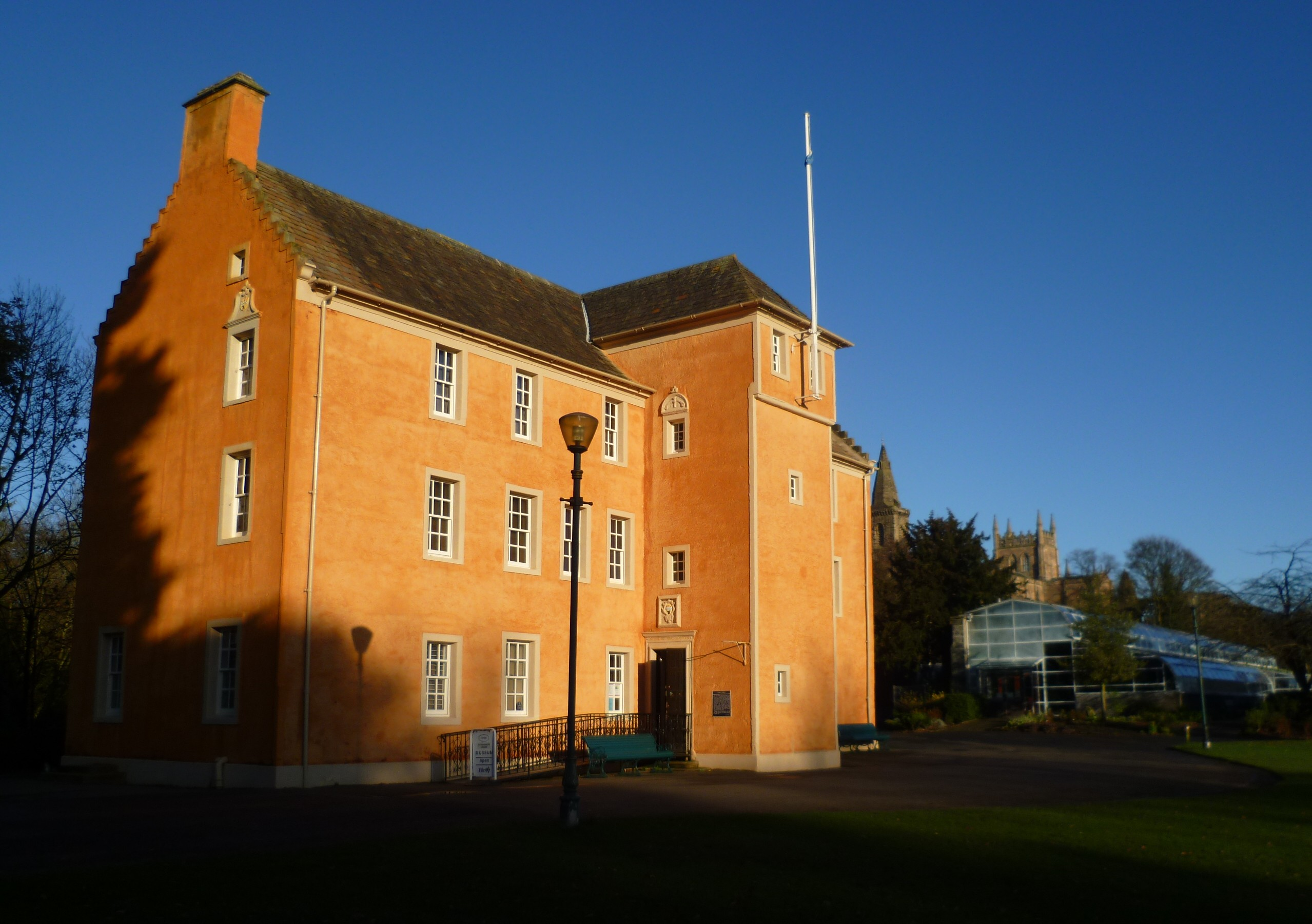 The birthplace of Brigadier-General Forbes, c.1708.